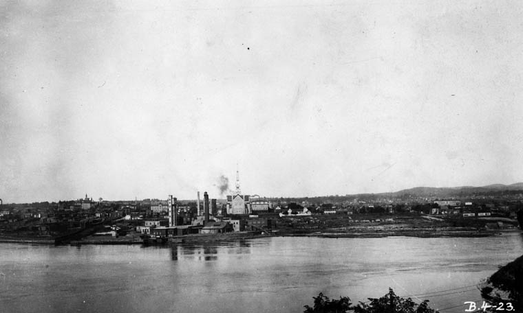 Hull, Quebec, from Parliament Hill, Ottawa, Ont. c.1923-1924